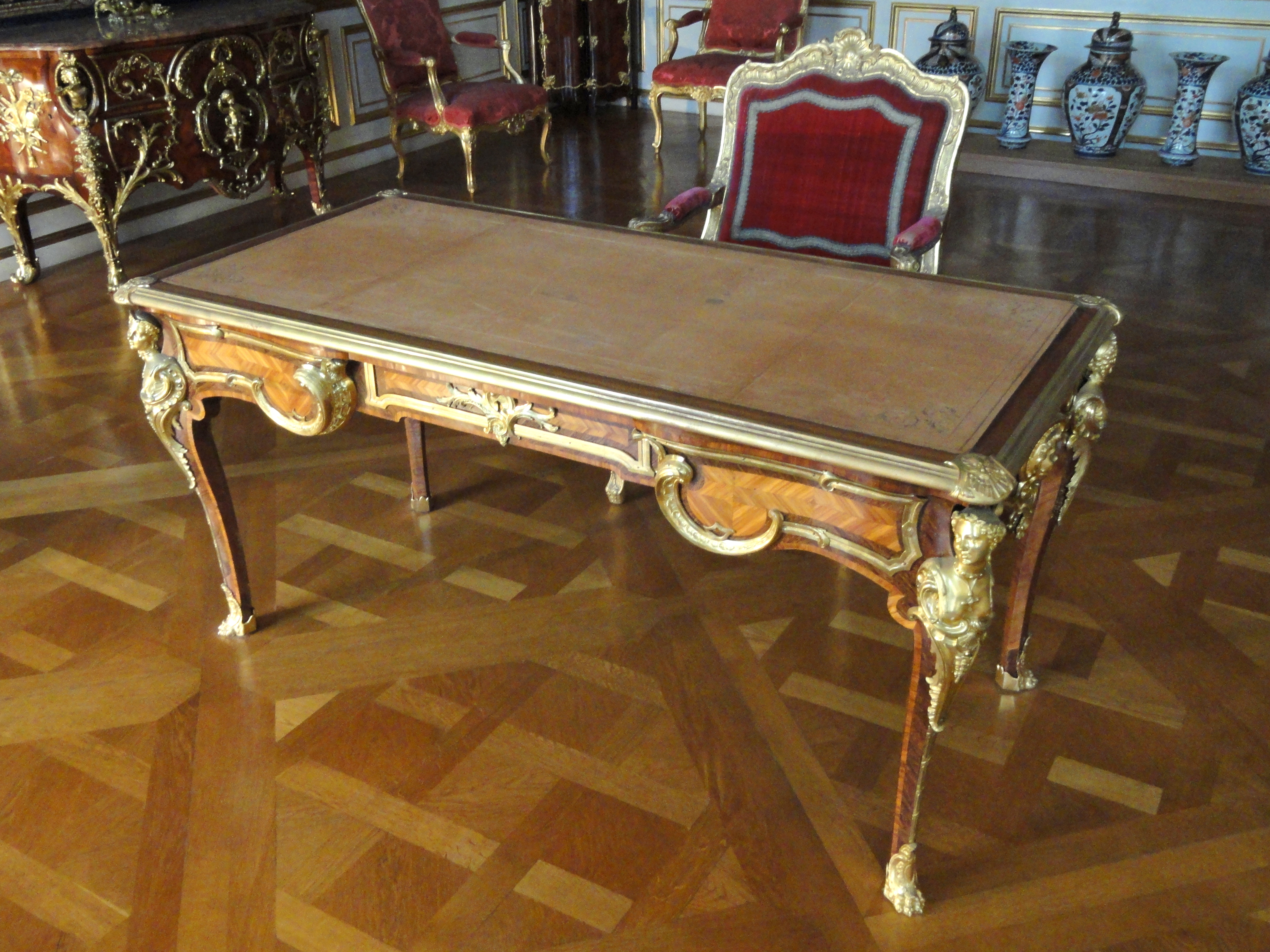 Charles Cressent (French, 1685-1768): Writing table, 1730-1735. Furniture exhibited in the Münchner Residenz, Munich, Germany.